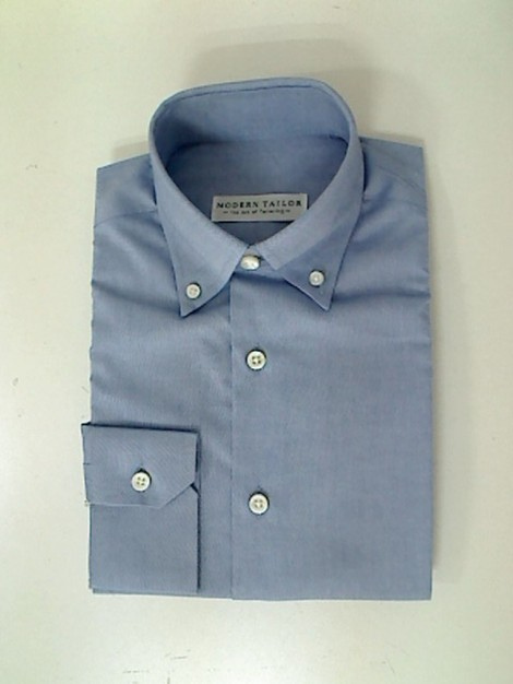 Oxford shirt from Modern Tailor.